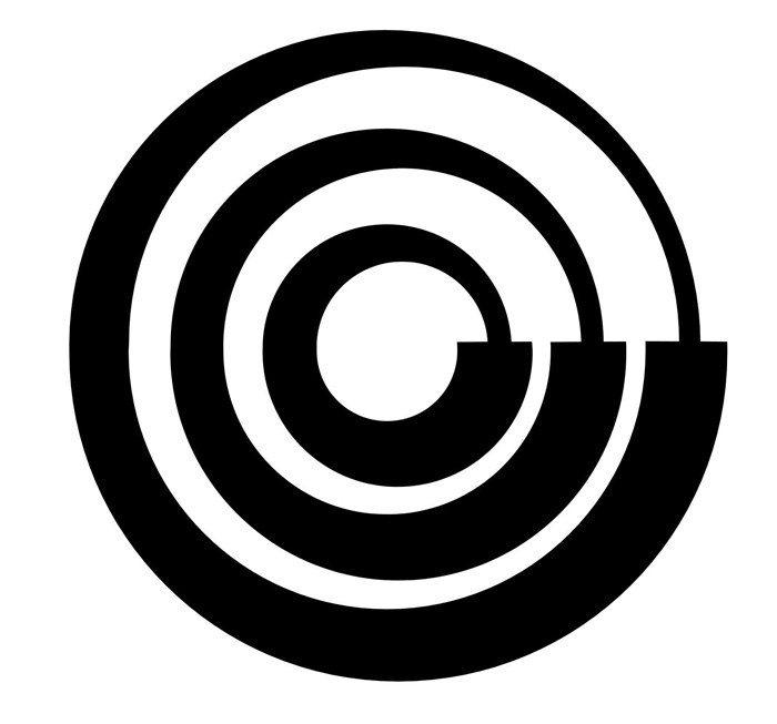 CHANNEL 1 LOGO